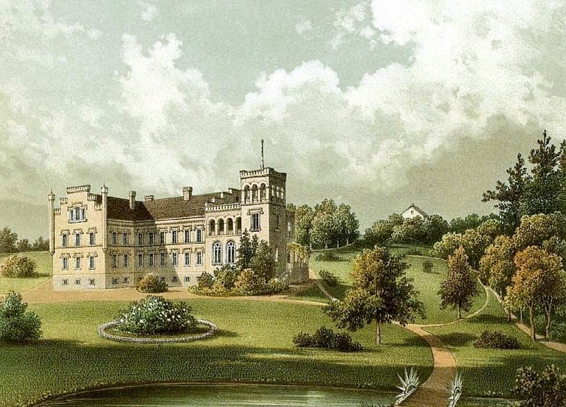 no longer existing palace in the village of Buchałów (Buchelsdorf)